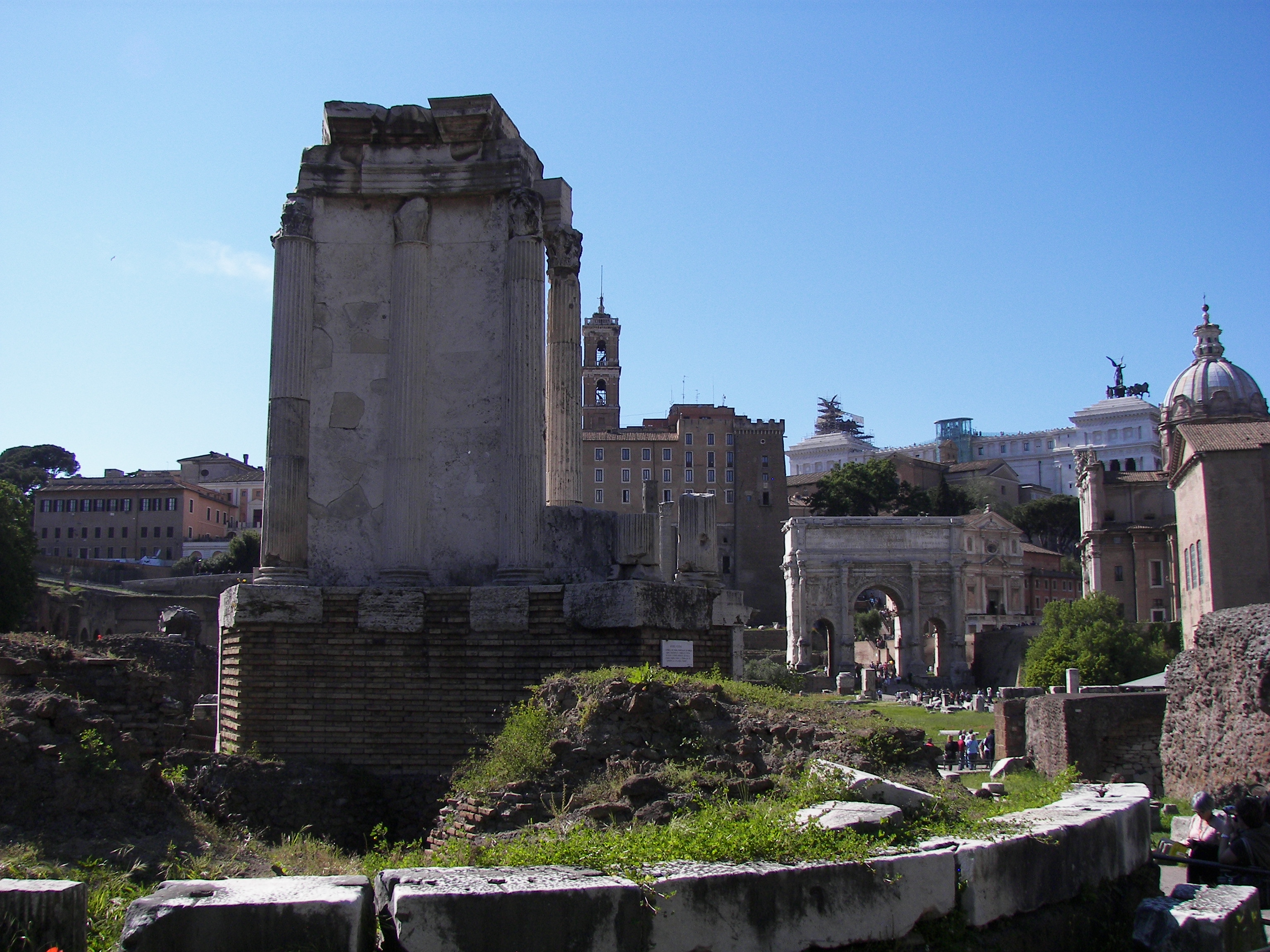 Temple of Vesta in the Forum Romanum in Rome. The Arch of Septimius Severus is in the distant center-right and the Curia Iulia to the far right.